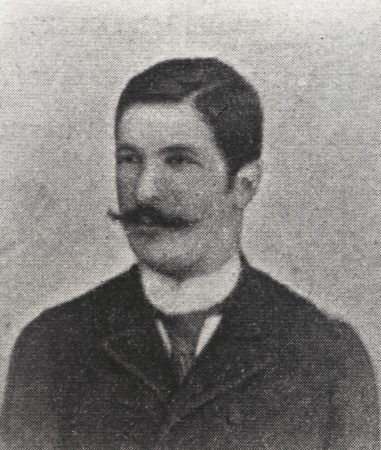 Georgios Streit (1868-1948): Greek lawyer, politician and university professor